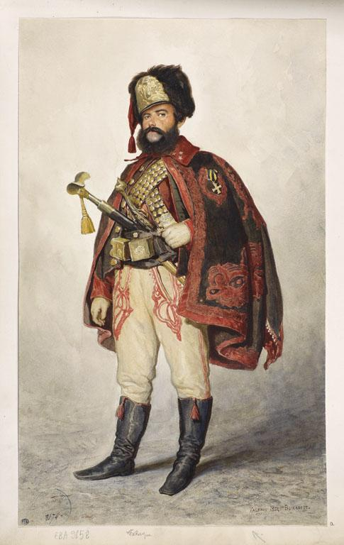 Théodore Valerio, Soldier from Bucharest, 1869 FNAC PFH-8798 (87). Crayon et aquarelle sur papier, 44,5 cm x 27,2 cm Signé, daté en bas à droite : VALERIO 1854. BUKAREST. En dépôt à l’ENSBA depuis 1869 Beaux-Arts de Paris, photo Raphaël Caussimon ; distribution RMN-Grand Palais